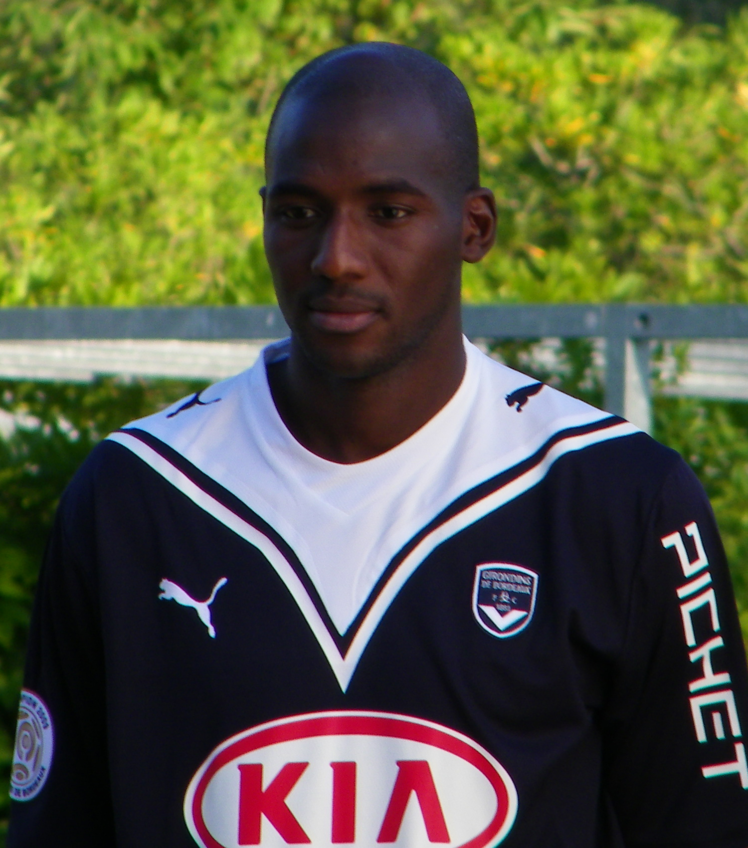 Alou Diarra, player at FC Girondins Bordeaux. Taken by Valentin Trijoulet. Public domain.